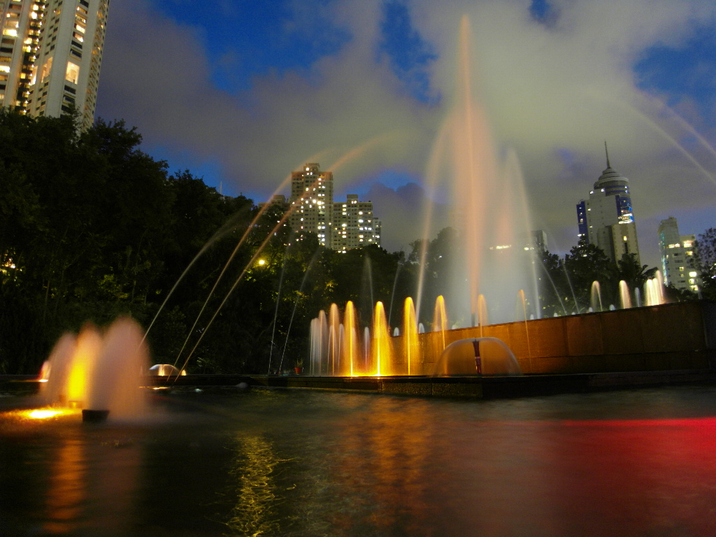 Hong Kong Botanic Garden Fountain at night